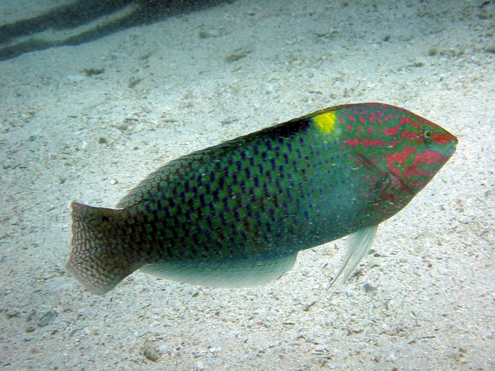 Halichoeres hortulanusChequerboard wrasse Dahab 2003